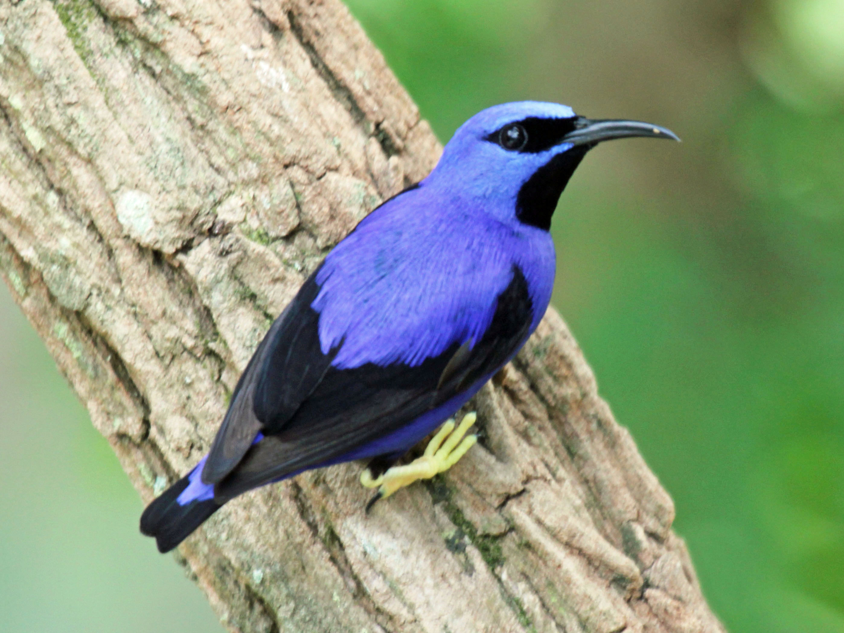 Purple Honeycreeper (Cyanerpes caeruleus), also known as Yellow-legs Honeycreeper, at Butterfly World in Florida